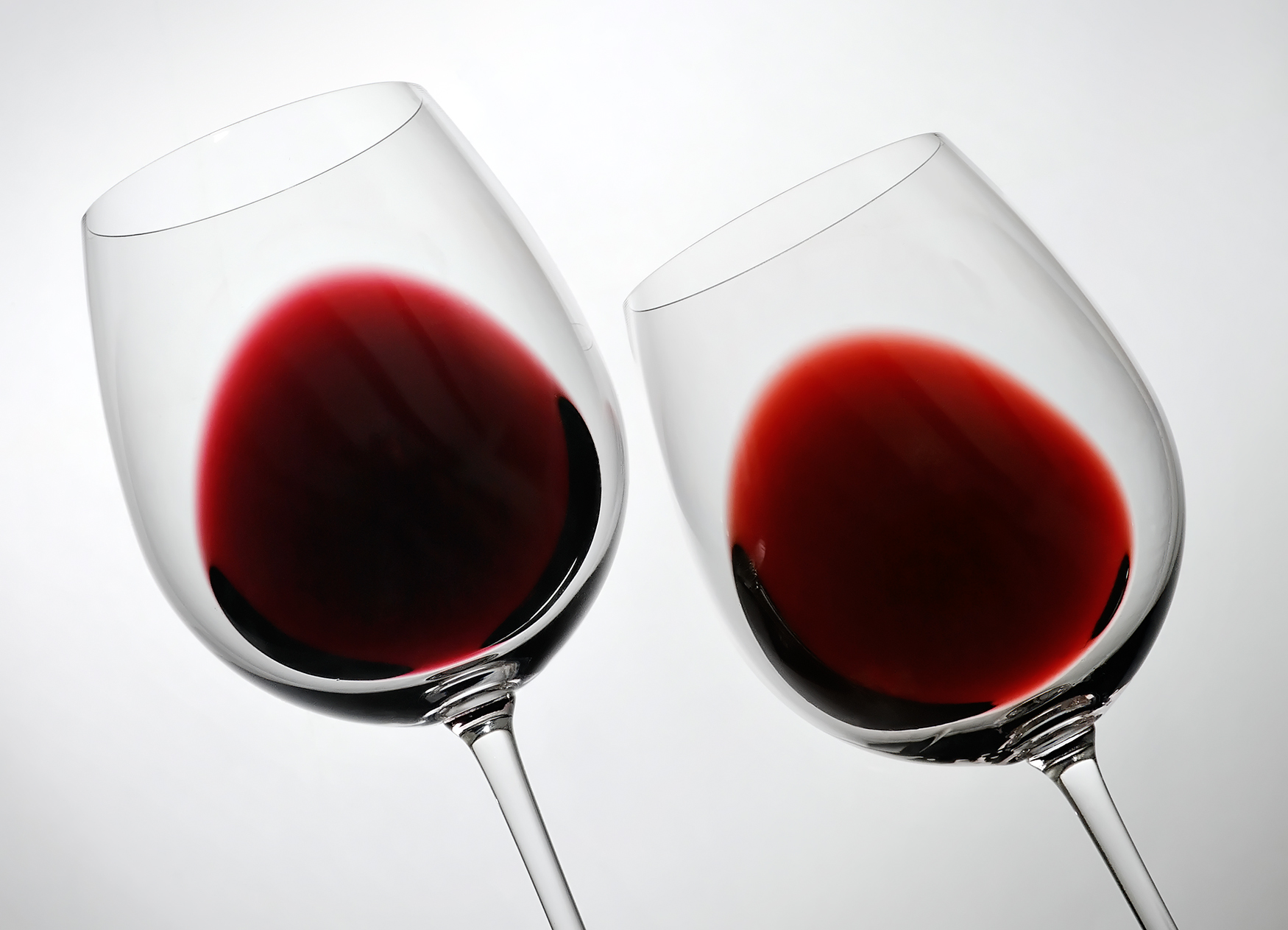 Comparing the effect on colour of oak aging wine. Both are Penedès region Cabernet Sauvingnon 100% varietals; on the left, a two-year-old cosecha; on the right a six-year-old crianza. As the wine matures, its colour shifts from deep purple or crimson to a lighter brick red, taking on a more graduated appearance in the glass as it ages.